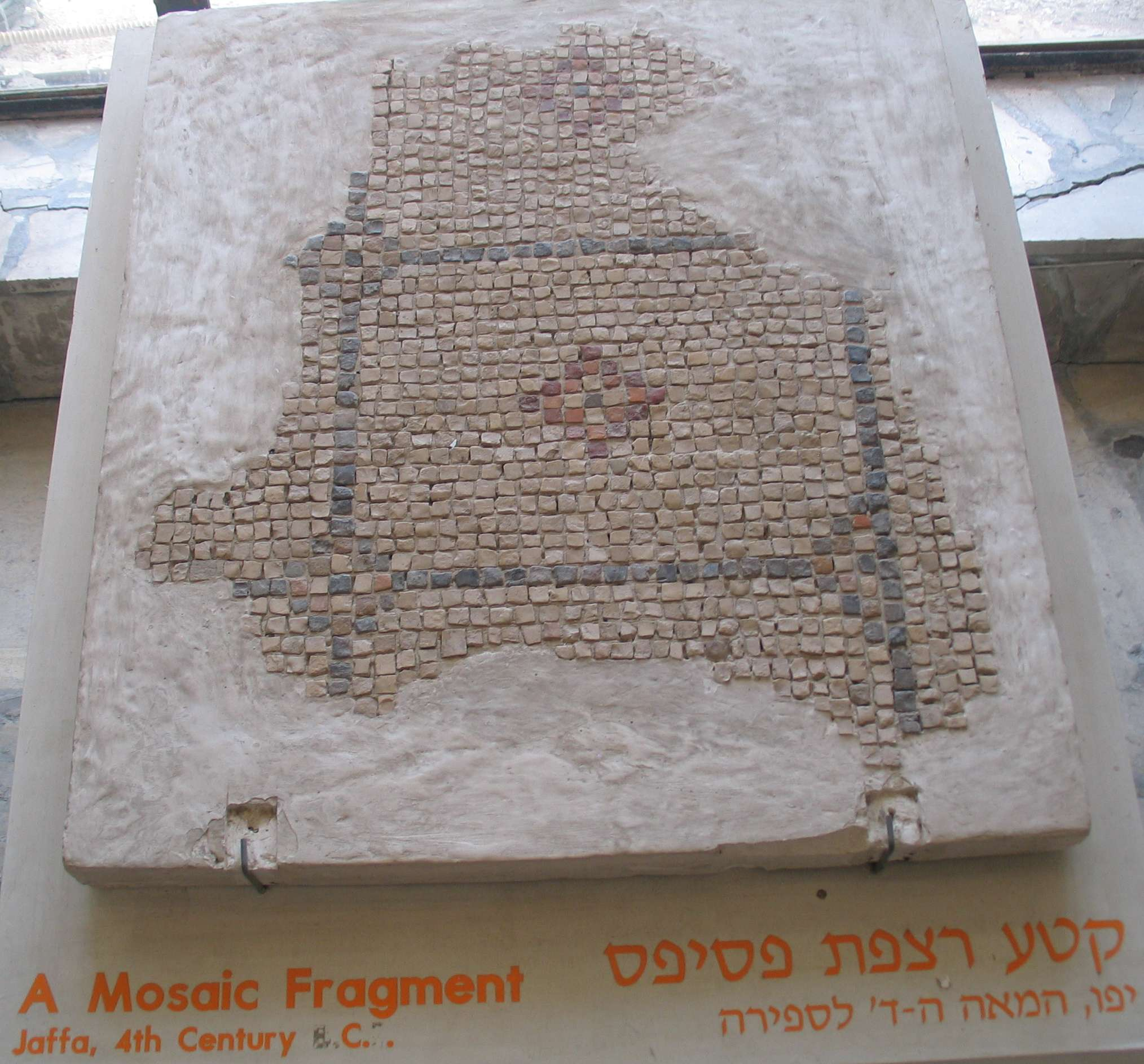 Jaffa museum, Jaffa, Israel.